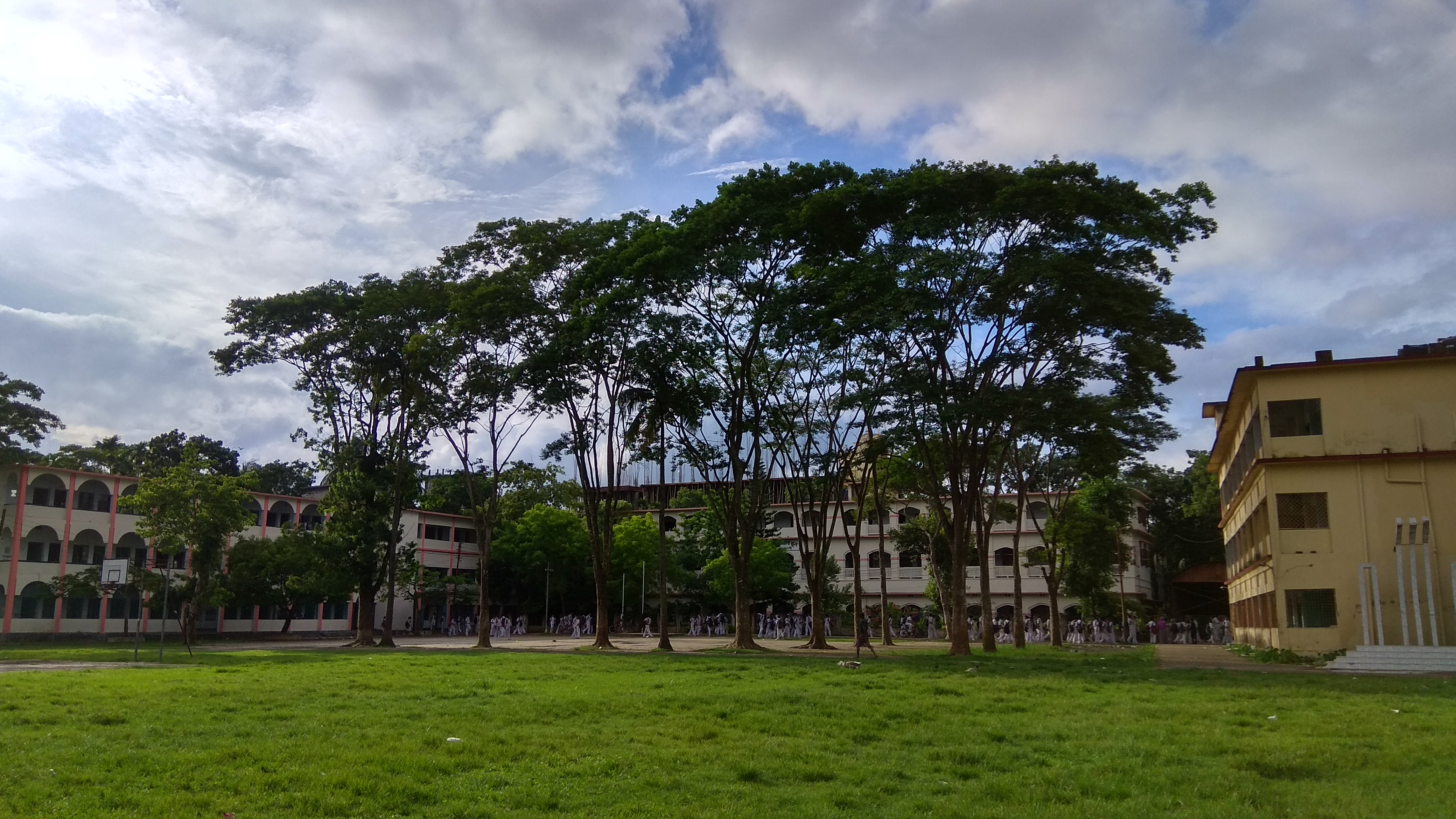 Barisal Zilla School, Bangladesh